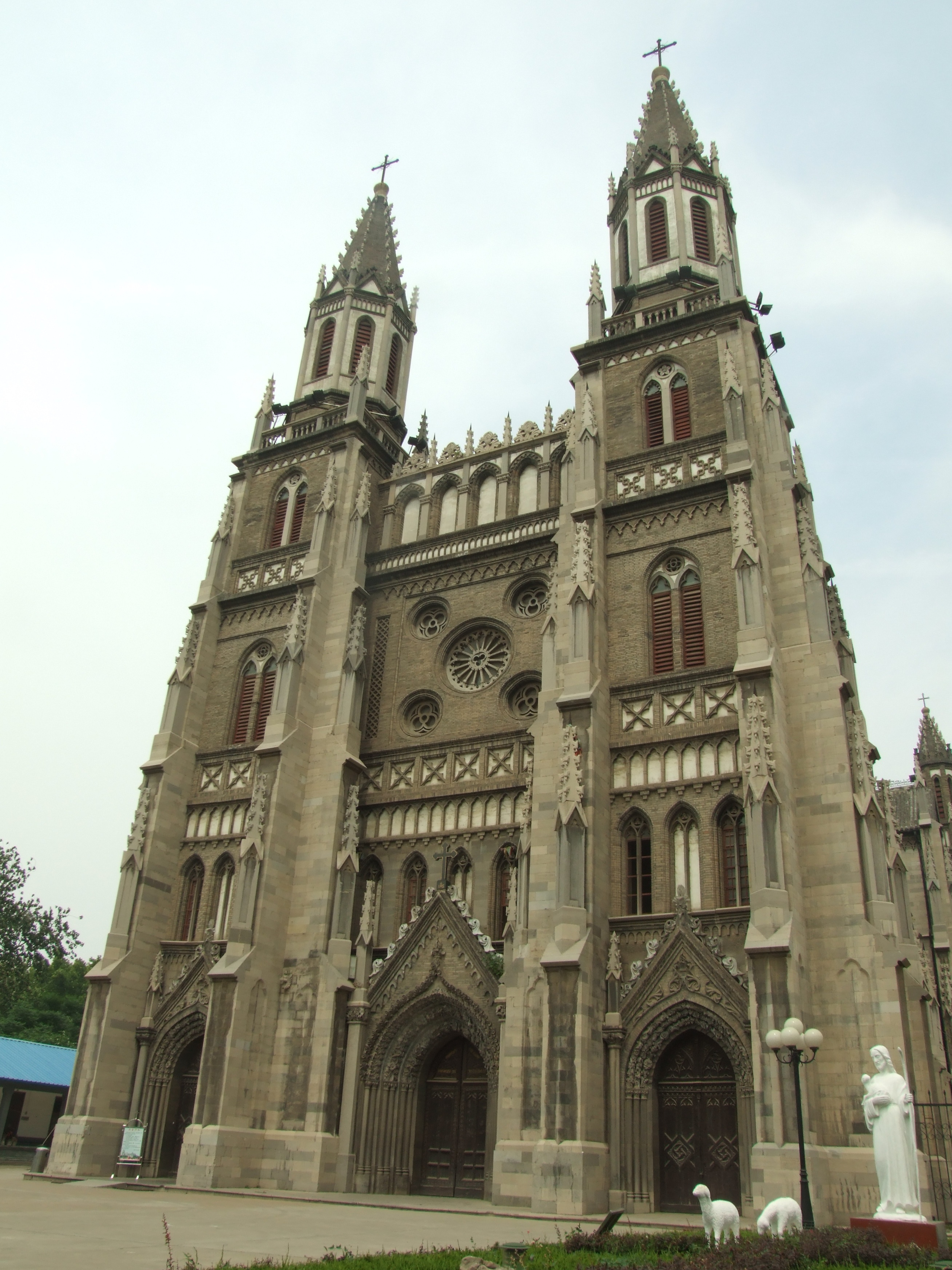 The Sacred Heart Cathedral at Shandong University in Jinan, also known as Hongjialou Cathedral.